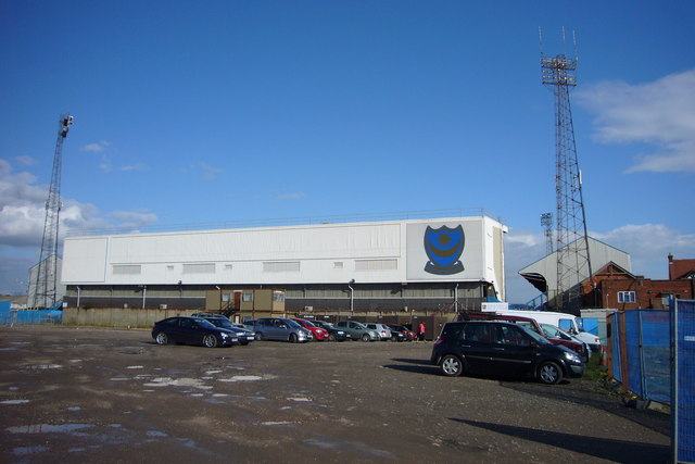 Fratton Park football stadium Home ground of Portsmouth FC: "PLAY UP POMPEY!!!!"